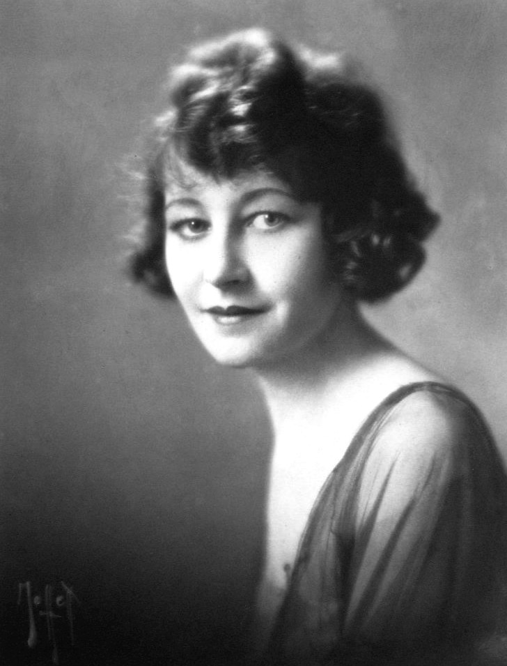 Photo of actress-singer-dancer Ivy Sawyer.